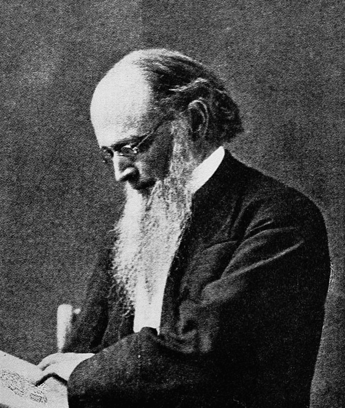 Photograph of Paul A. Chadbourne, 2nd president of the Massachusetts Agricultural College, 4th president of the University of Wisconsin and 5th president of Williams College.